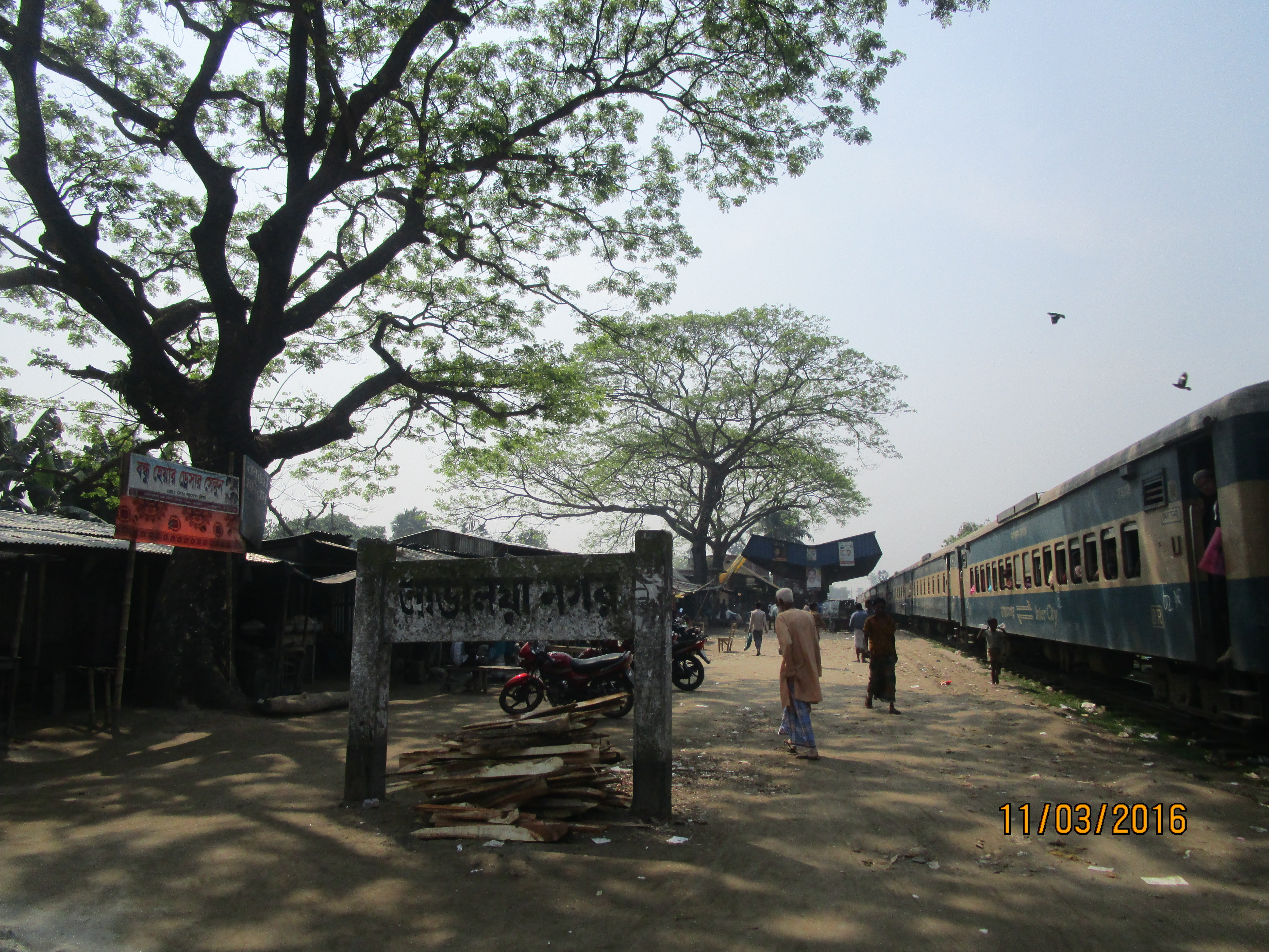 Aulianagar railway station